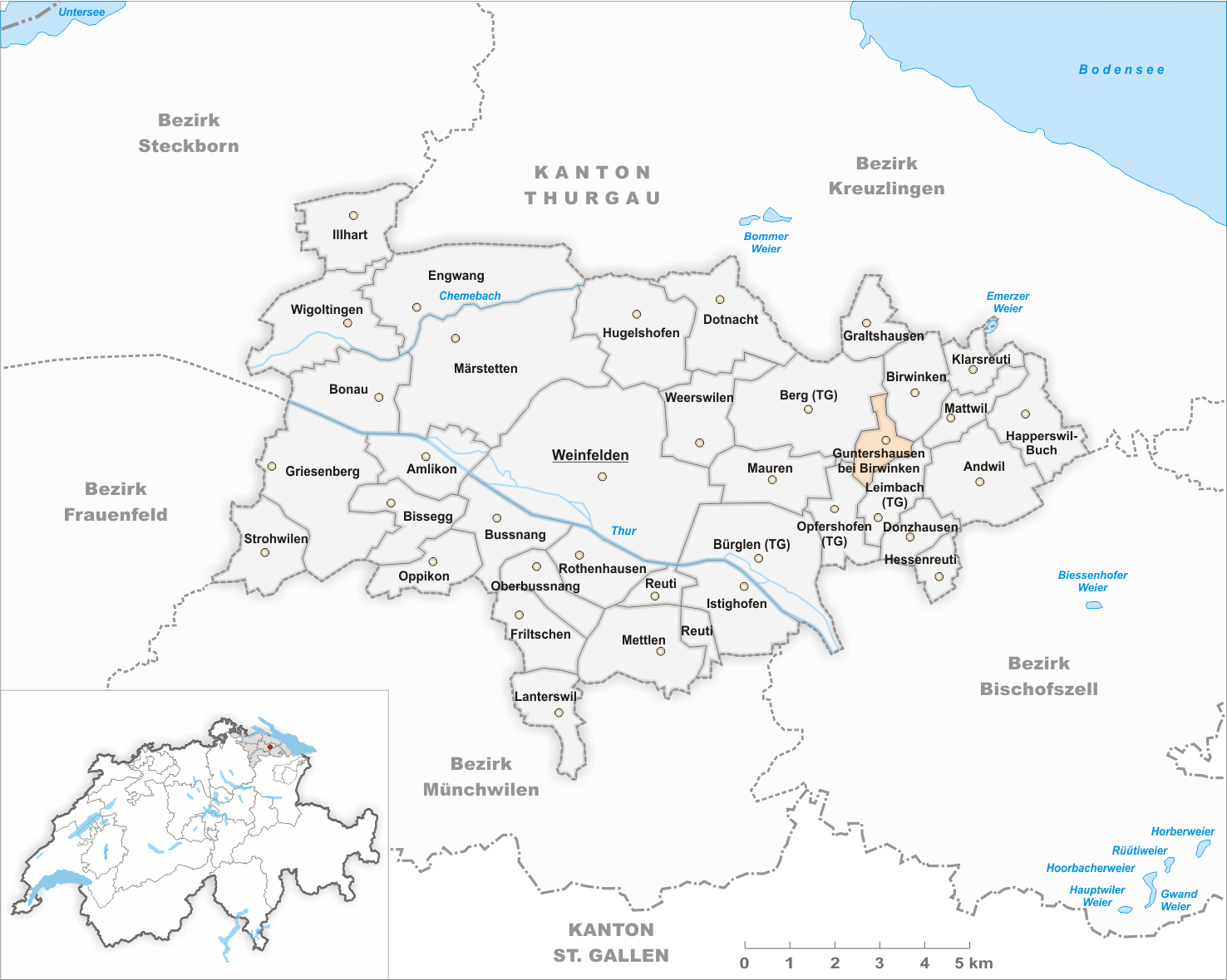 Municipality Guntershausen